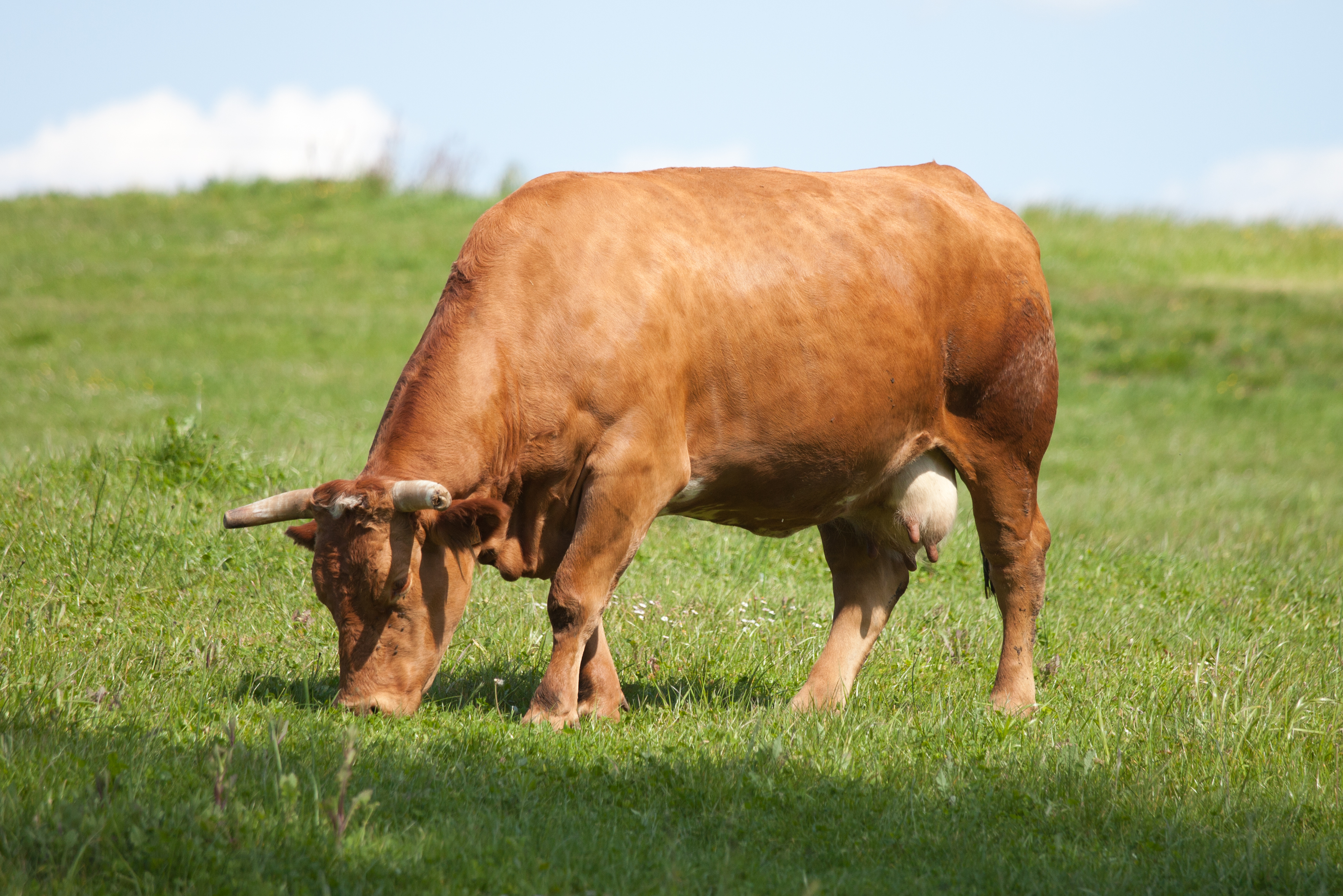 A Galician Blond cow in Oroso, Spain